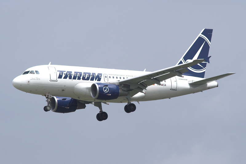 Tarom Airbus A318 YR-ASA landing at Frankfurt Airport